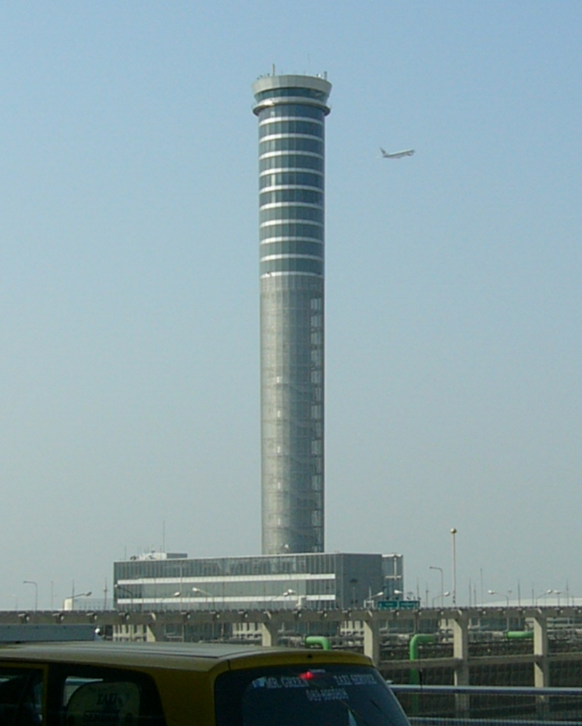 Control tower at Suvarnabhumi International Airport near Bangkok, Thailand.